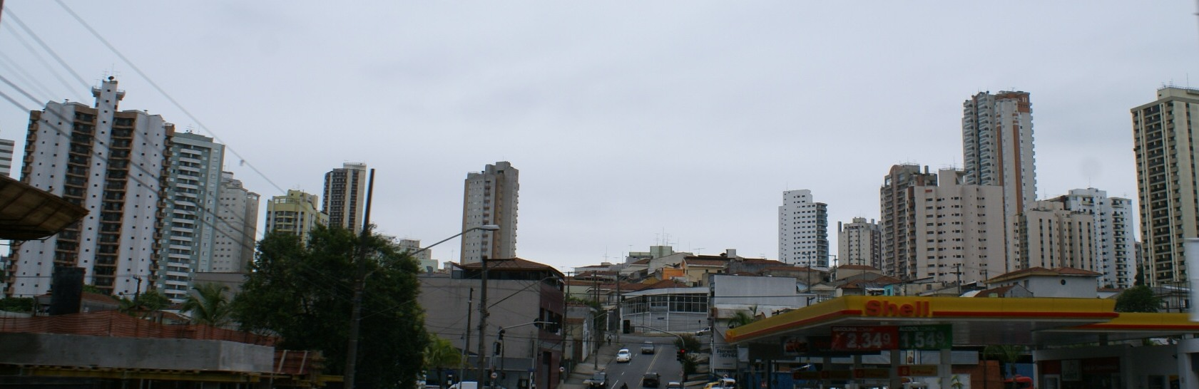 Água Rasa district in São Paulo City, Brazil.